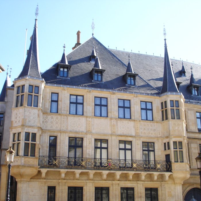 Façade of the Grand-Ducal Palace, in the historic centre of the city of Luxembourg.